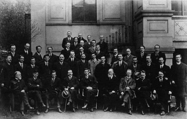 Photo of the First Dáil Éireann taken at the Mansion House on the 21 January 1919. Pictured are: First row, left to right: Laurence Ginnell, Michael Collins, Cathal Brugha, Arthur Griffith, Eamon de Valera, Count Plunkett, Eoin MacNeill, W.T. Cosgrave, Kevin O'Higgins